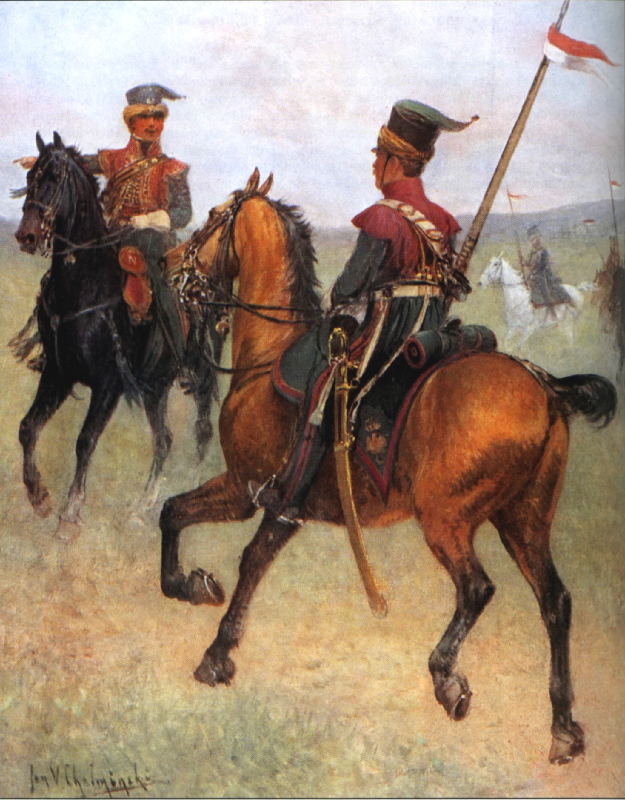 Lithuanian Tatars of Napoleon`s Army in 1812